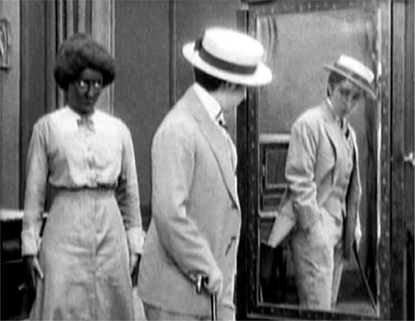 A frame from the 1914 silent film A Florida Enchantment showing the main character, Lillian Travers/Lawrence Talbot, dressing up in men's clothing